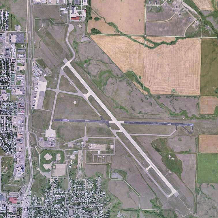 USGS digital orthophoto of Minot International Airport in North Dakota